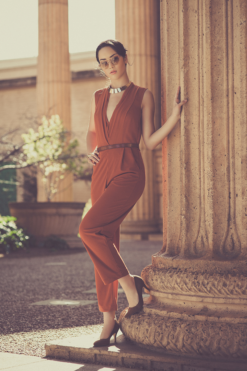 Steven Santiago Photo Collette @ Scout SF